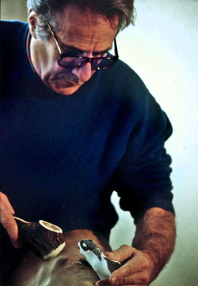 The french prehistorian, Jacques Tixier, makes an experimental demonstration of flintknapping with soft hammer